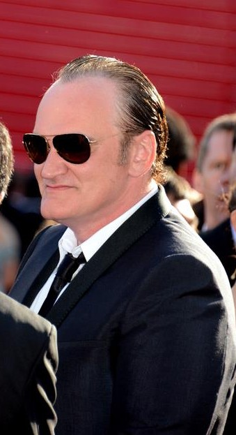 Quentin Tarantino at the Cannes Film festival, for the 20th anniversary of "Pulp fiction"